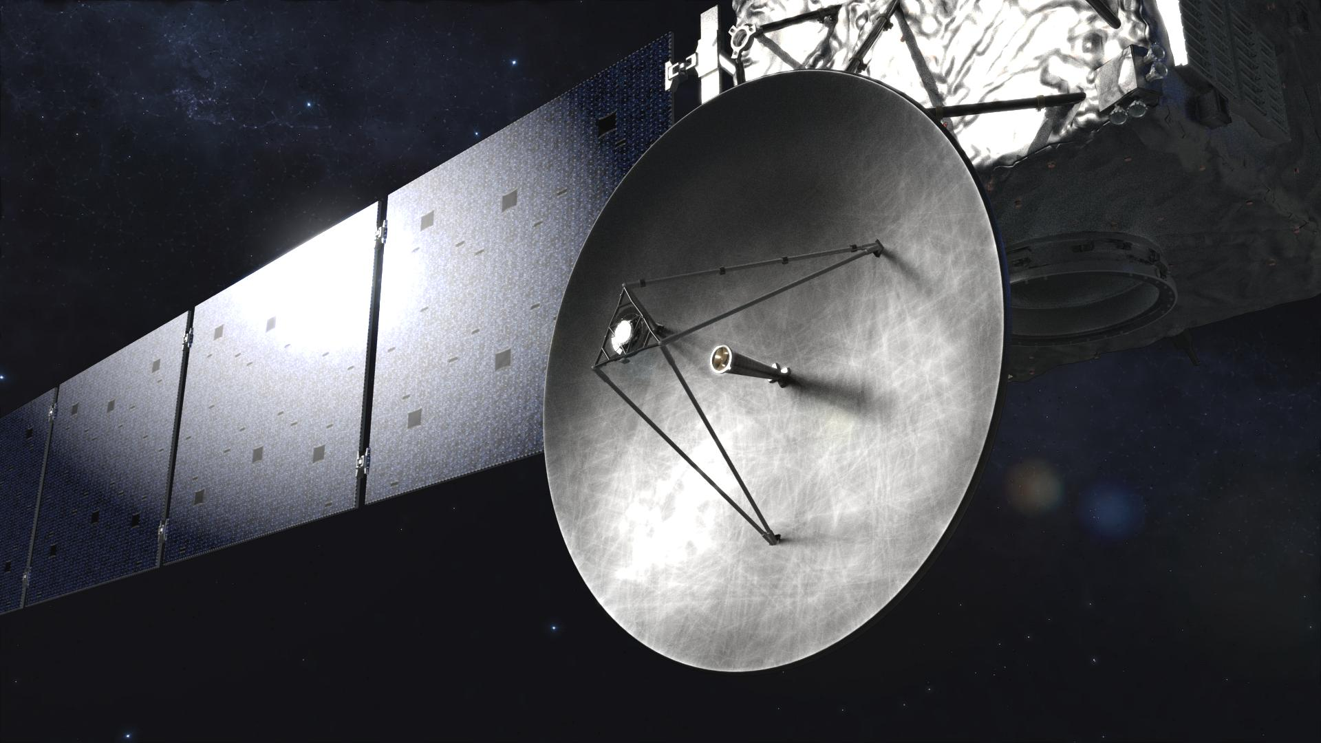 Close-up of the Rosetta antenna - frame from the Chasing A Comet – The Rosetta Mission" film.